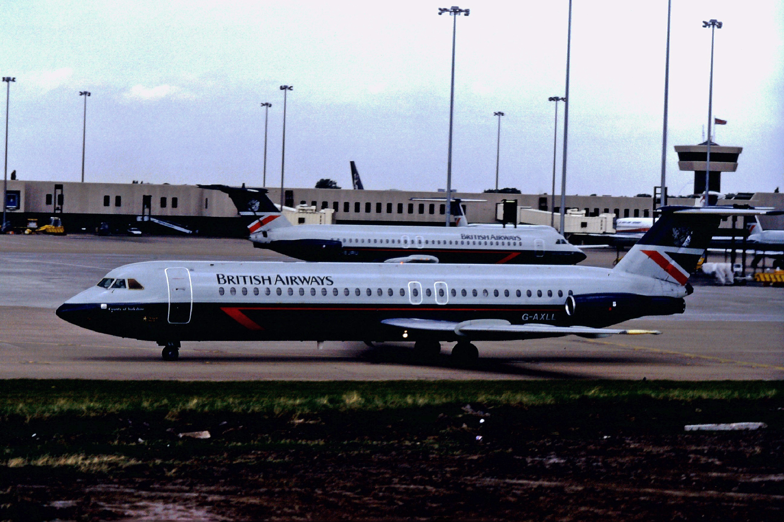 G-AXLL BAC1-11 of British Airways Taxing off stand at Birmingham Airport 22-08-89 Scanned from slide